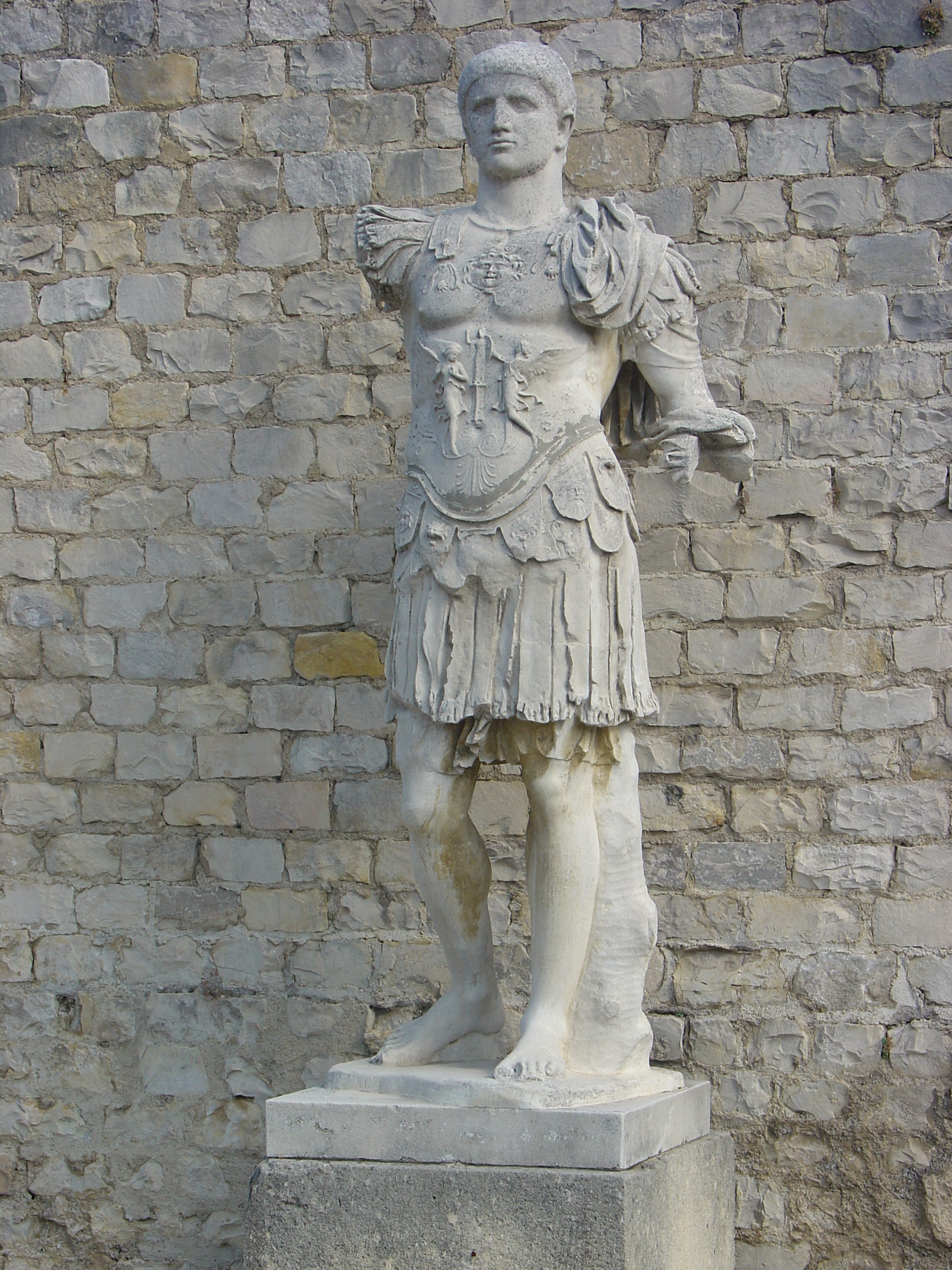 Modern replica of the Domitianus statue, located in the Silver bust house, in La Villasse, Vaison-la-Romaine. The original statue, which was discovered in the theatre, is now in the museum : File:Domitian_Vaison-la-Romaine.jpg.